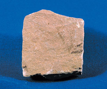 Siltstone